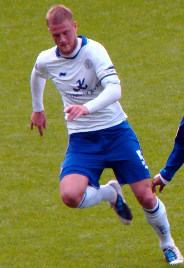 25/09/11 Cardiff V Leicester, Championship, Cardiff City Stadium, Cardiff, Wales [Image cropped from original at Flickr]